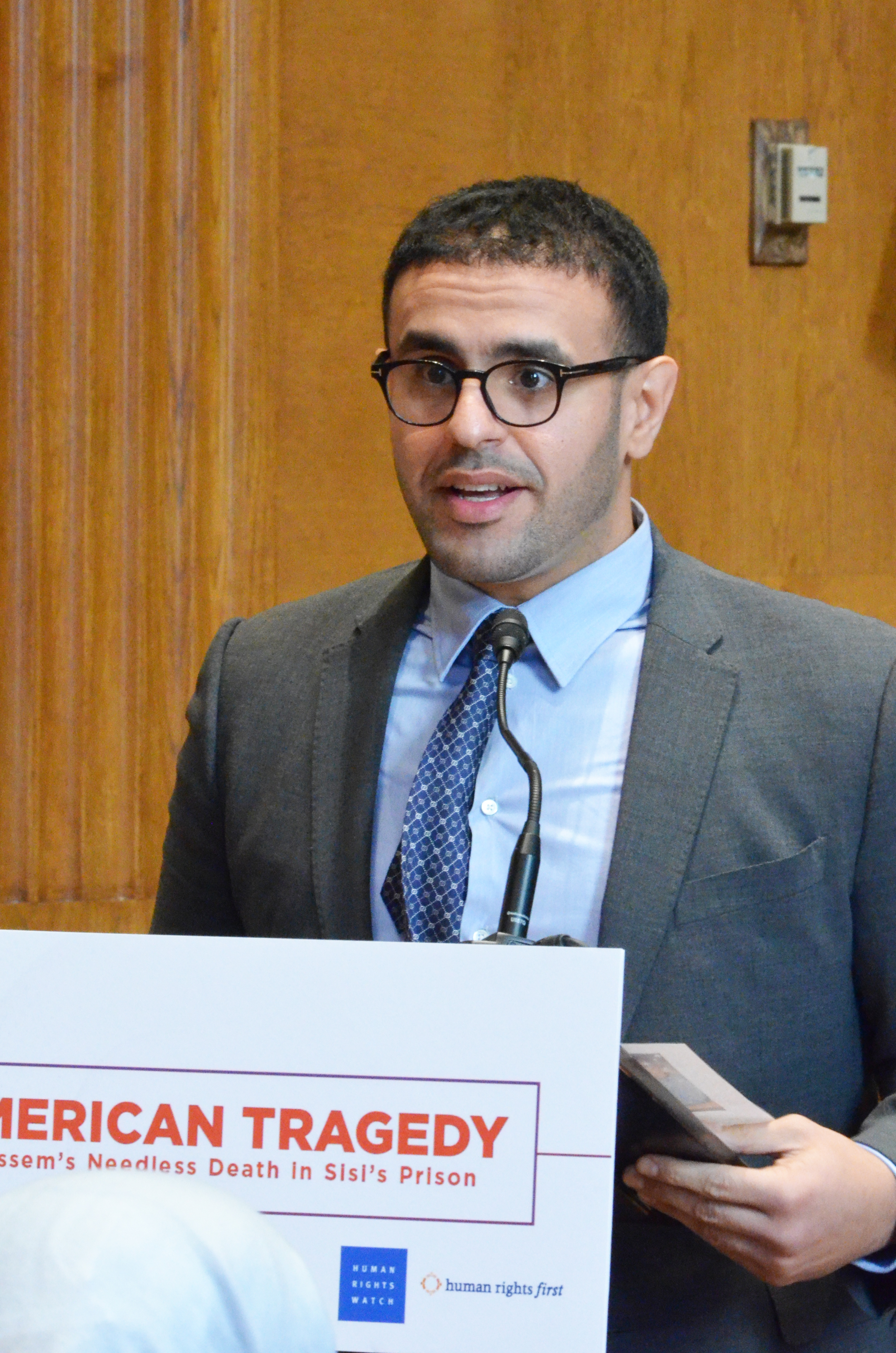 Mohamed Soltan of the Freedom Initiative offers remarks during "An American Tragedy: Mustafa Kassem's Needless Death in Sisi's Prison." Egyptian-American Mustafa Kassem passed away after more than six years of unjust detention and negligent medical care in Egypt. In 2013, he was detained after showing his American passport to Egyptian army officials when they asked for identification, then held in pretrial detention for five years, and convicted in a mass trial with no individualized evidence against him. Mustafa leaves behind his wife and two children, all of whom are American citizens. On Wednesday, January 15, 2020, six human rights and democracy organizations held an event on Capitol Hill to address the tragic circumstances surrounding Mustafa’s death, the other Americans currently jailed in Egypt, and the dire conditions in Egypt’s prisons. Featuring Sen. Patrick Leahy (D-VT) Sen. Chris Murphy (D-CT) Sen. Chris Van Hollen (D-MD) Rep. Peter King (R-NY) Rep. Jim McGovern (D-MA) Rep. Thomas Suozzi (D-NY) Aya Hijazi, Belady Foundation Mohamed Soltan, The Freedom Initiative Diane Foley, James W. Foley Legacy Foundation Praveen Madhiraju, Pretrial Rights International Sponsored by The Freedom Initiative Human Rights First Human Rights Watch James W. Foley Legacy Foundation Pretrial Rights International Project on Middle East Democracy Watch the event here. Photo credit: April Brady/Project on Middle East Democracy